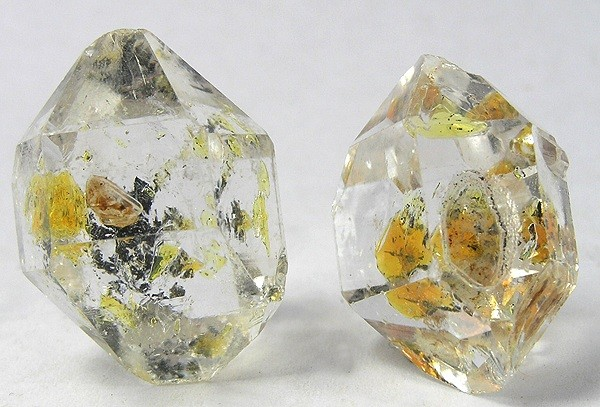 Quartz (Var.: Herkimer Diamond) Locality: Ace of Diamonds Mine, Middleville, Town of Newport, Herkimer County, New York, USA (Locality at ) Size: 2.9 x 2.1 x 1.6 cm, 2.7 x 1.8 x 1.5 cm. One of these two Herkimers has trapped a pocket of orangey mineralized water, in which a bubble clearly moves as you turn the crystal around! Both crystals, in fact, contain inclusions of this liquid, which add pretty color to them, as well as inclusions of black bituminous. They are both complete, uncontacted floater crystals, with glassy luster.